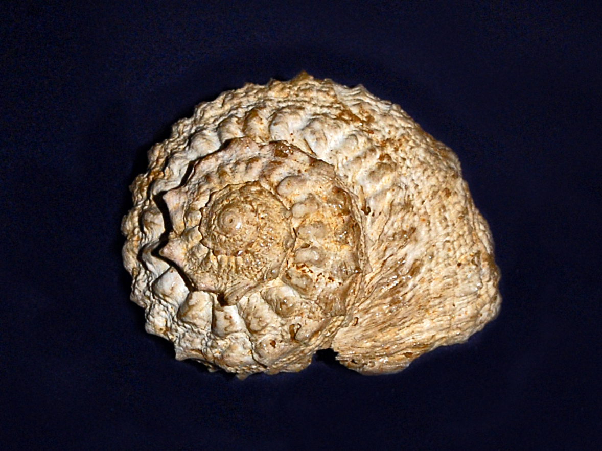 A Fossil shell of Bolma rugosa from Pliocene of Italy, on display at the Museo Paleontologico, Asti